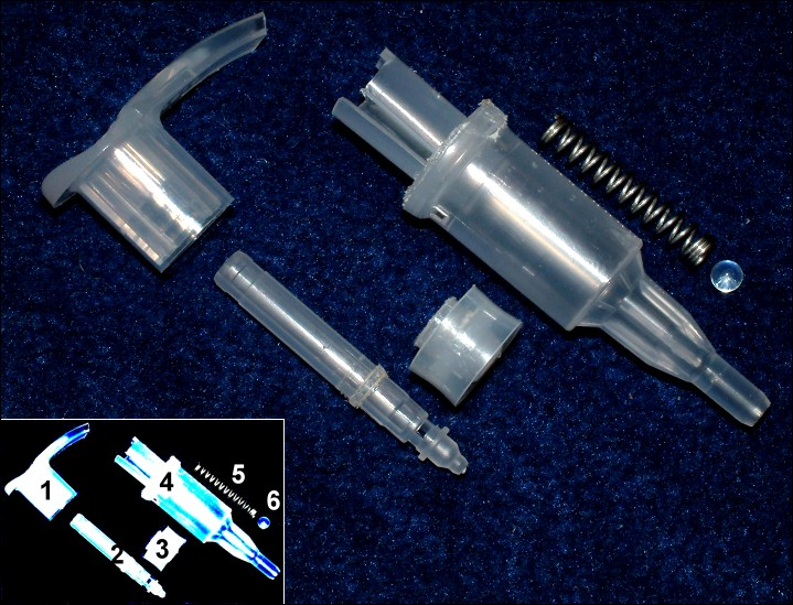 Parts of a piston pump of a soap dispenser